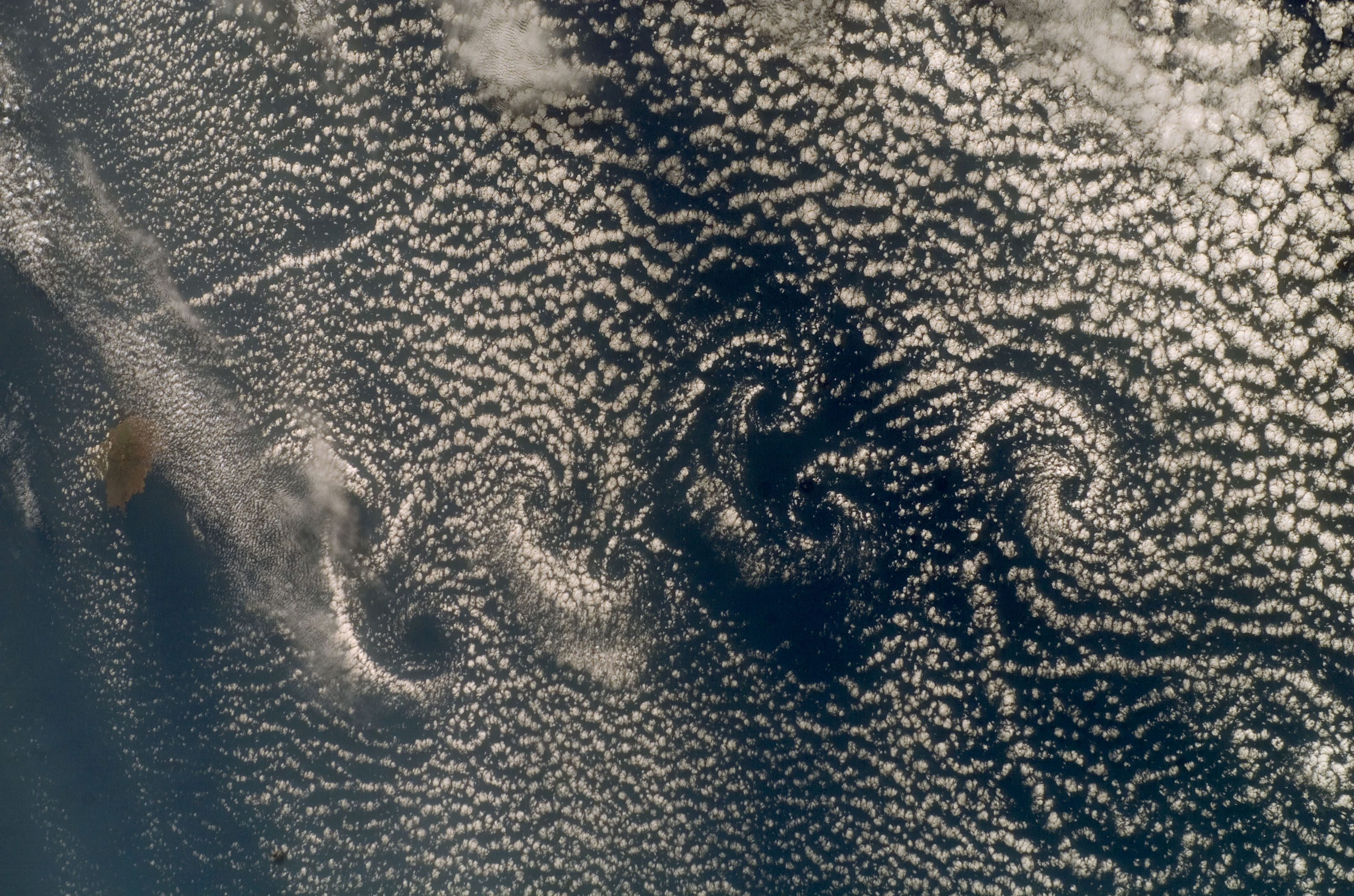 Cloud vortices caused by Socorro Island, Revillagigedo Islands, Mexico